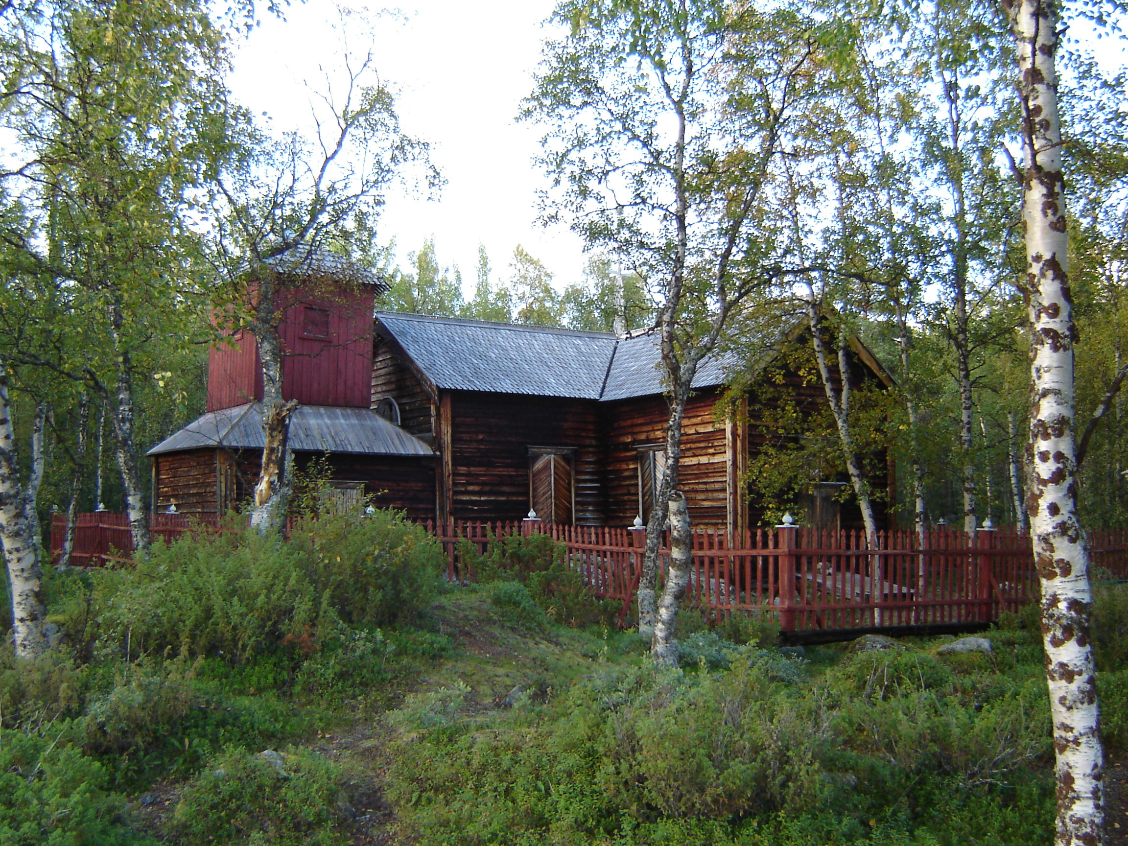 Pielpajärvi wilderness church (1754–1760) in Inari, Finland